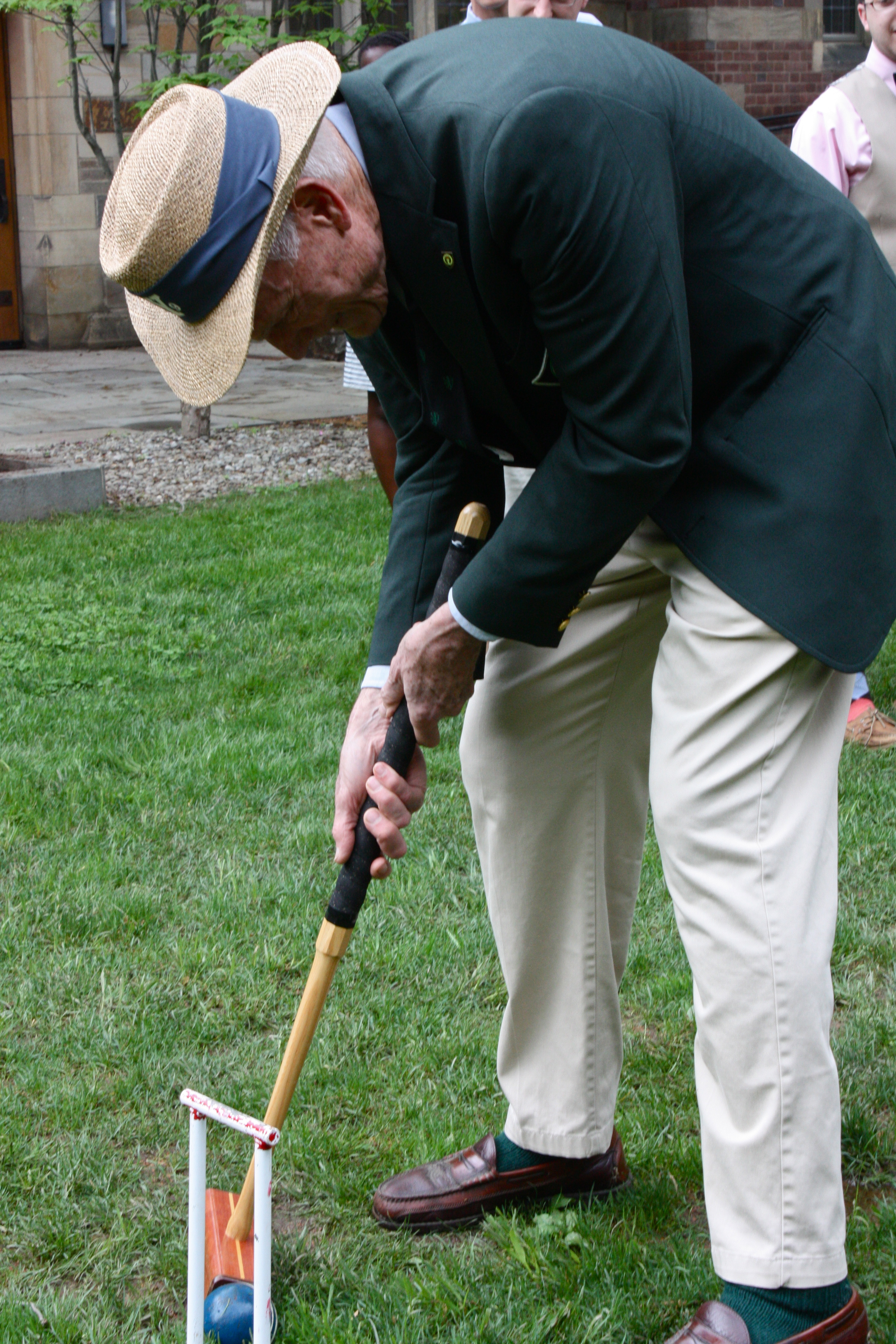 Fellows and students get competitive in the courtyard